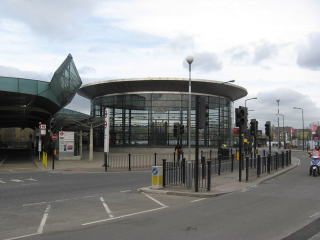 Canada Water Station, Southwark, London LUL station on the Jubilee Line (and from 2010) the East London Line. It opened on 17 September 1999.